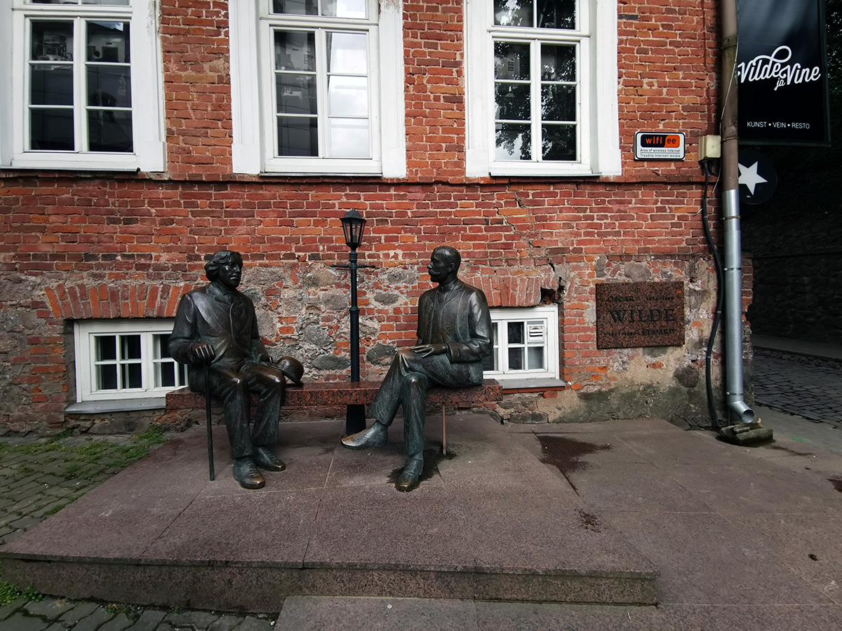 The statues in Tartu devoted to Oscar Wilde and Eduard Vilde (Wilde) sitting together on a bench.